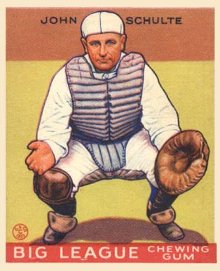 1933 Goudey baseball card of John "Johnny" Schulte of the Boston Braves #186. PD-not-renewed.